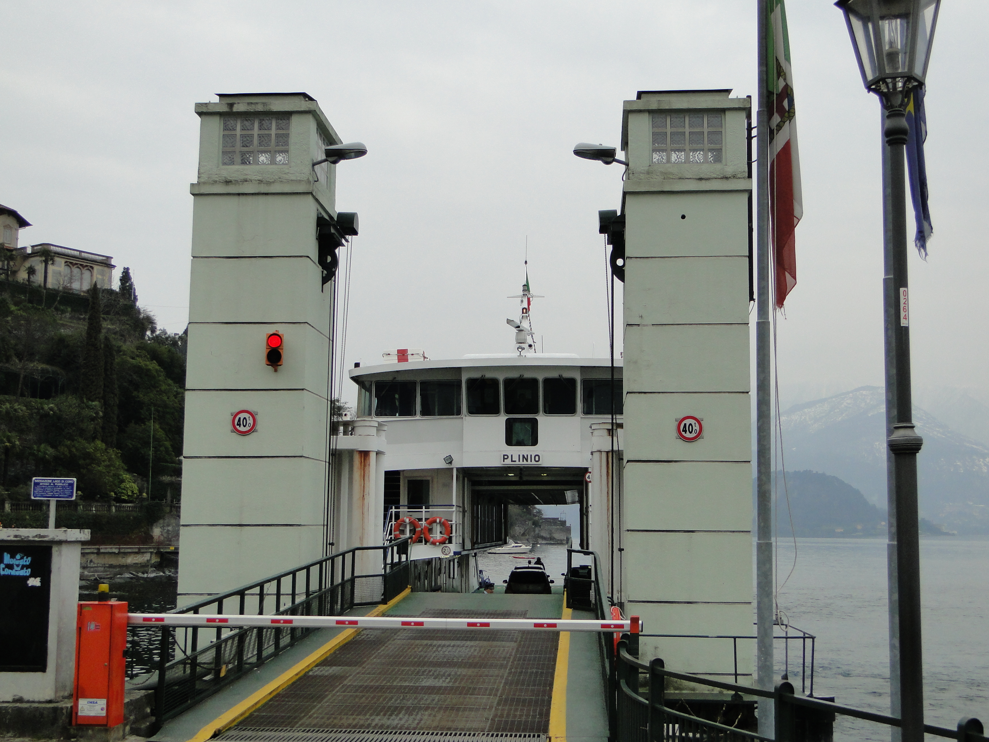 Ferry-wharf in Varenna